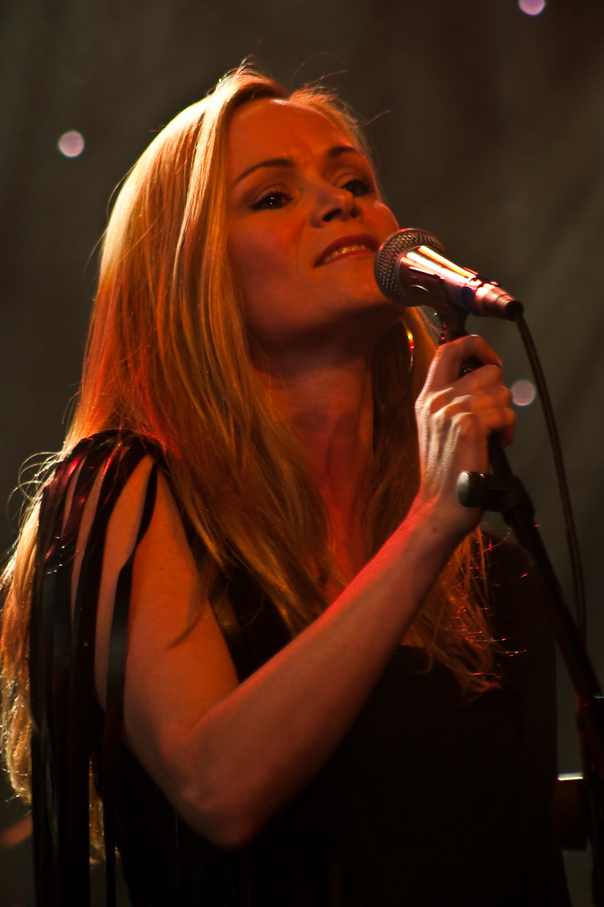 Taken in NASA, Reykjavik, Iceland